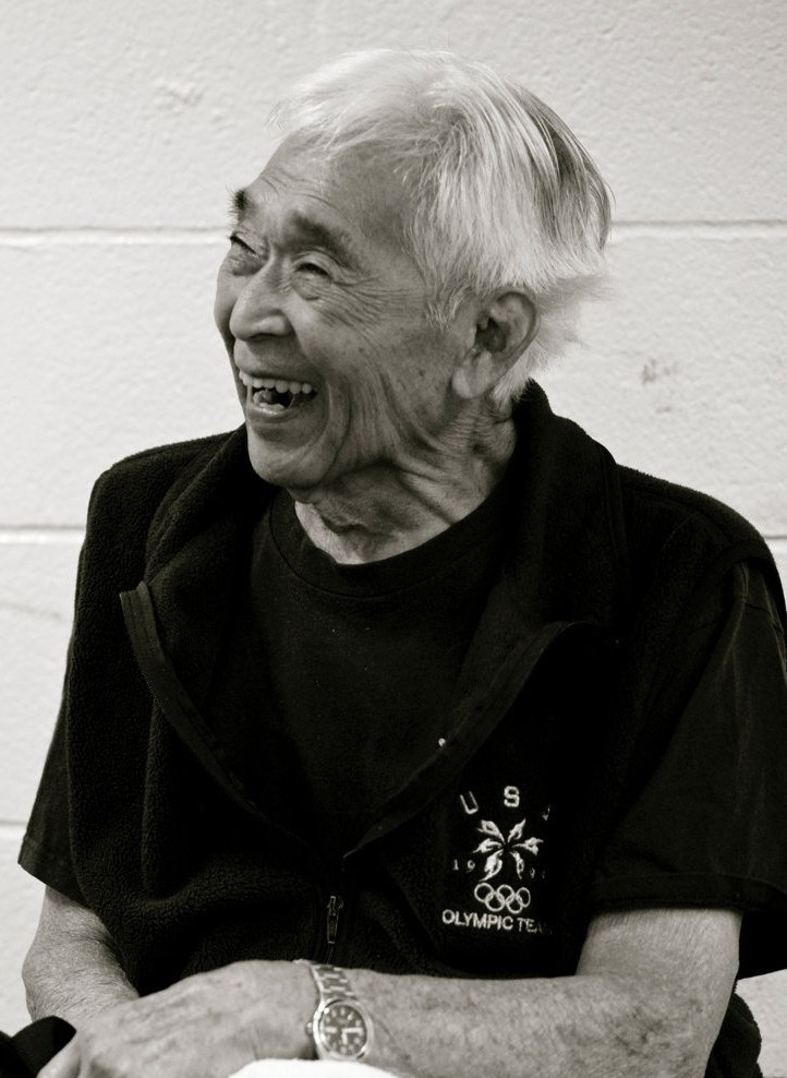 Two-time gold and one-time silver Olympic medalist in weightlifting, world records set in four different weight classes, an unbelievable string of world championships, coach, athlete statesmen, and former Tule Lake internee, Tommy Kono.